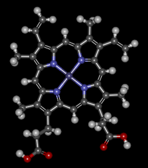 A scaled ball and stick model of Heme B.